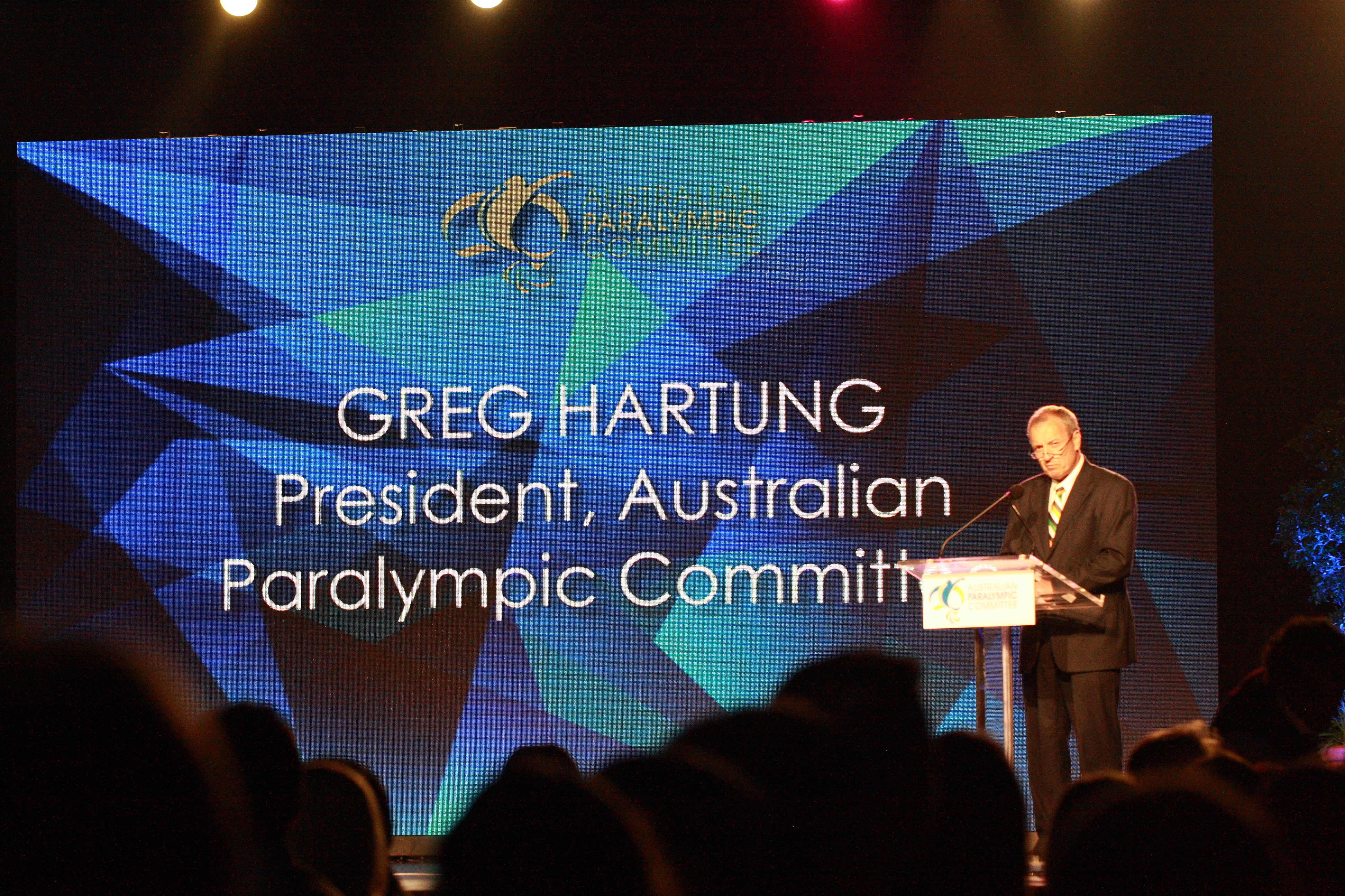 Australian Paralympian of the Year 2012 ceremony at the Hordern Pavilion, Sydney, Australia.